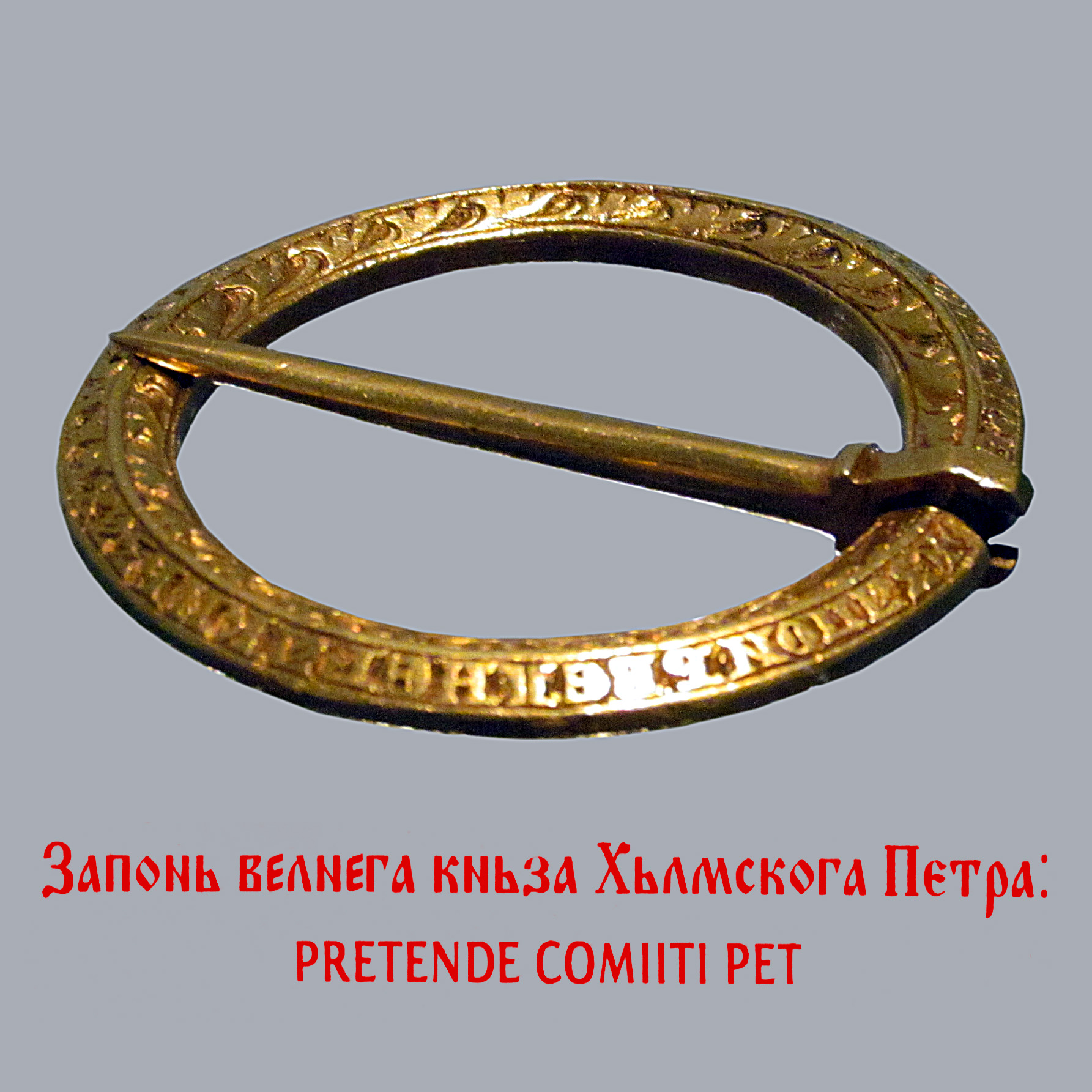 Belt buckle of Petar, Prince of Hum 1222-8, National Museum of Serbia